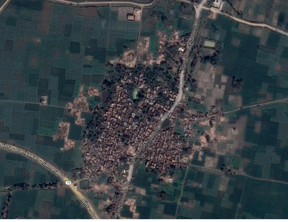 Gopalbad